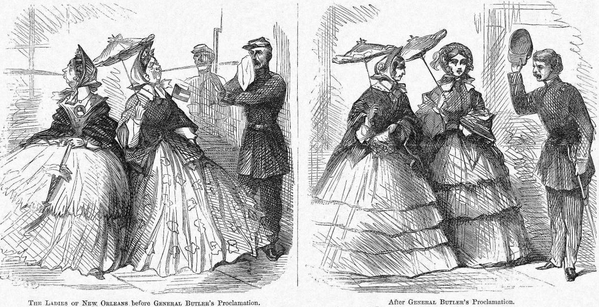 New Orleans under Union occupation during the American Civil War. 1862 editorial cartoon from Harper's Weekly, Ladies of New Orleans before and after General Butler's Proclamation. The first image shows women spitting on a Union soldier, in the second the women pass by while the soldier tips his hat. Comments: This is a reference to a proclamation by Union General Benjamin Butler, at the time in charge of the occupation of New Orleans. Some local women had been showing disrespect to US troops in the city; the proclamation declared that such women could subject to arrest under the same laws as if they were prostitutes making public solicitations. While the cartoon shows the order as having the desired effect of stopping the disrespectful actions, actually Butler's order generated local resentment and international condemnation, and Butler was not long after relived of his command.